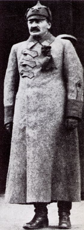 Leo Trotzki in uniform (Soviet general)